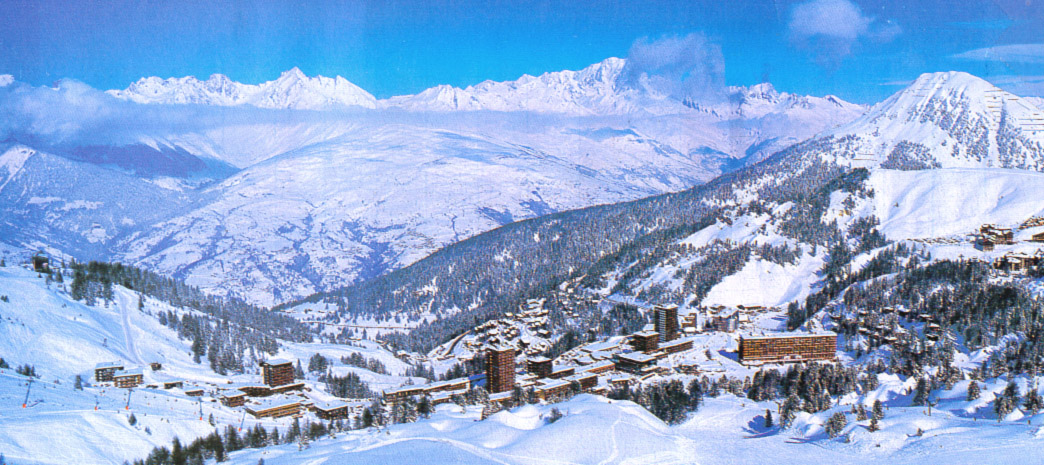 La Plagne Centre in winter